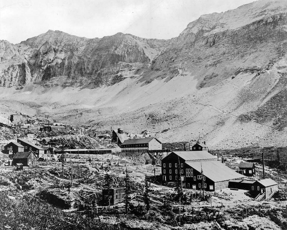 Tomboy Mine and mill, Tomboy Colorado.